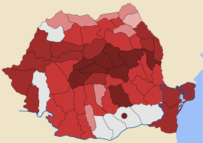 Romania, 1946 Elections - Possible Results per county; based on informations from Alegerile parlamentare din noiembrie '46: guvernul procomunist joacă şi câştigă. Ilegalităţi flagrante, rezultat viciat (Parlamentary Elections from November '46: procommunist governement plays and wins. Obvious Illegalities, Vicious Result) by Petre Ţurlea, from Dosarele Istoriei (History Files), 11 (51)/2000, p. 35-36 citing in turn a confidential document of Romanian Communist Party.